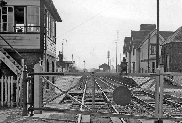 Baschurch Station View SE, towards Shrewsbury; ex-GWR Shrewsbury - Chester main line. Station closed to passengers 12/9/60, to goods 5/7/65. The closed station appears to be lived-in.